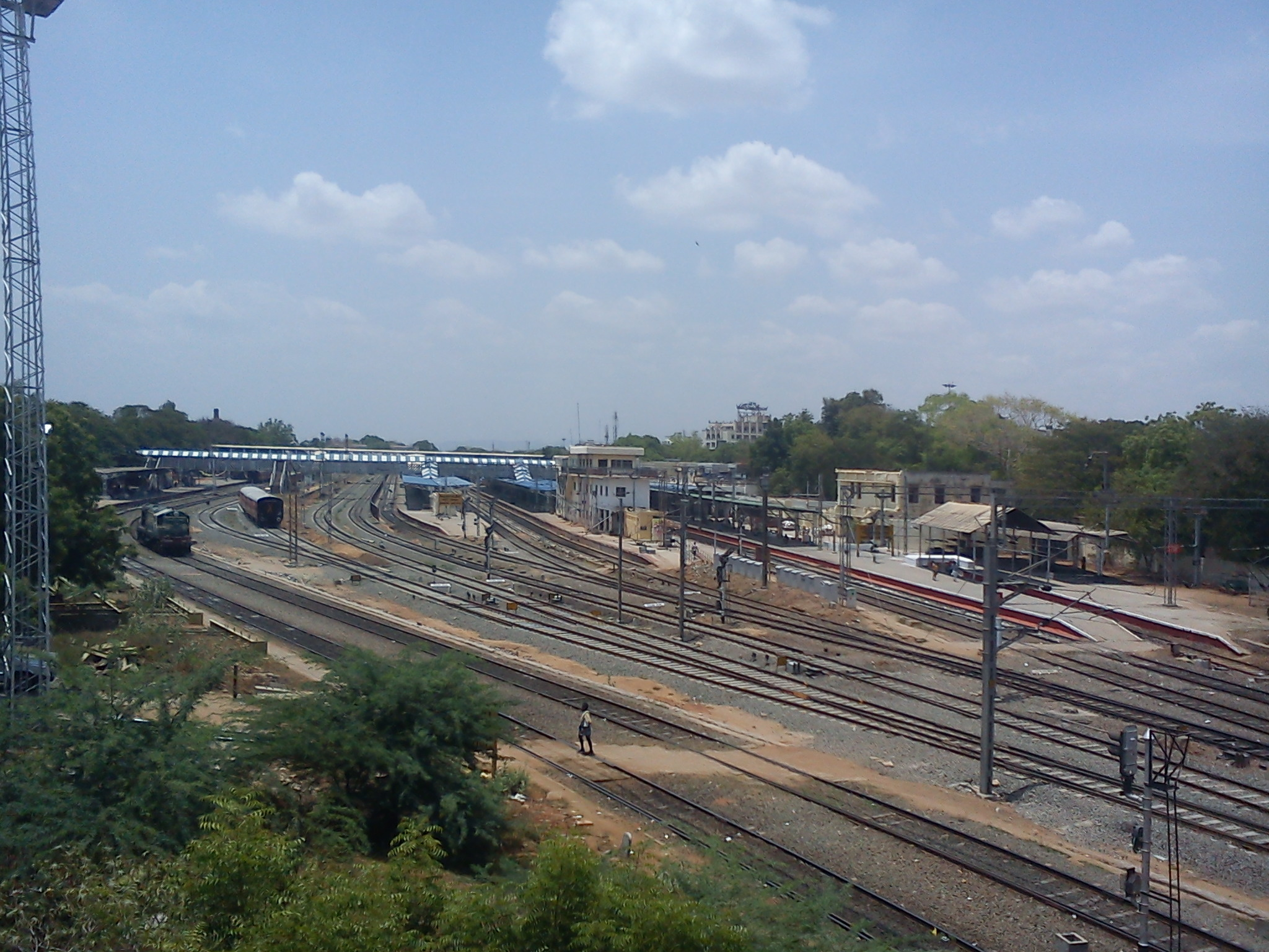 MADURAI RAILWAY STATION VIEW